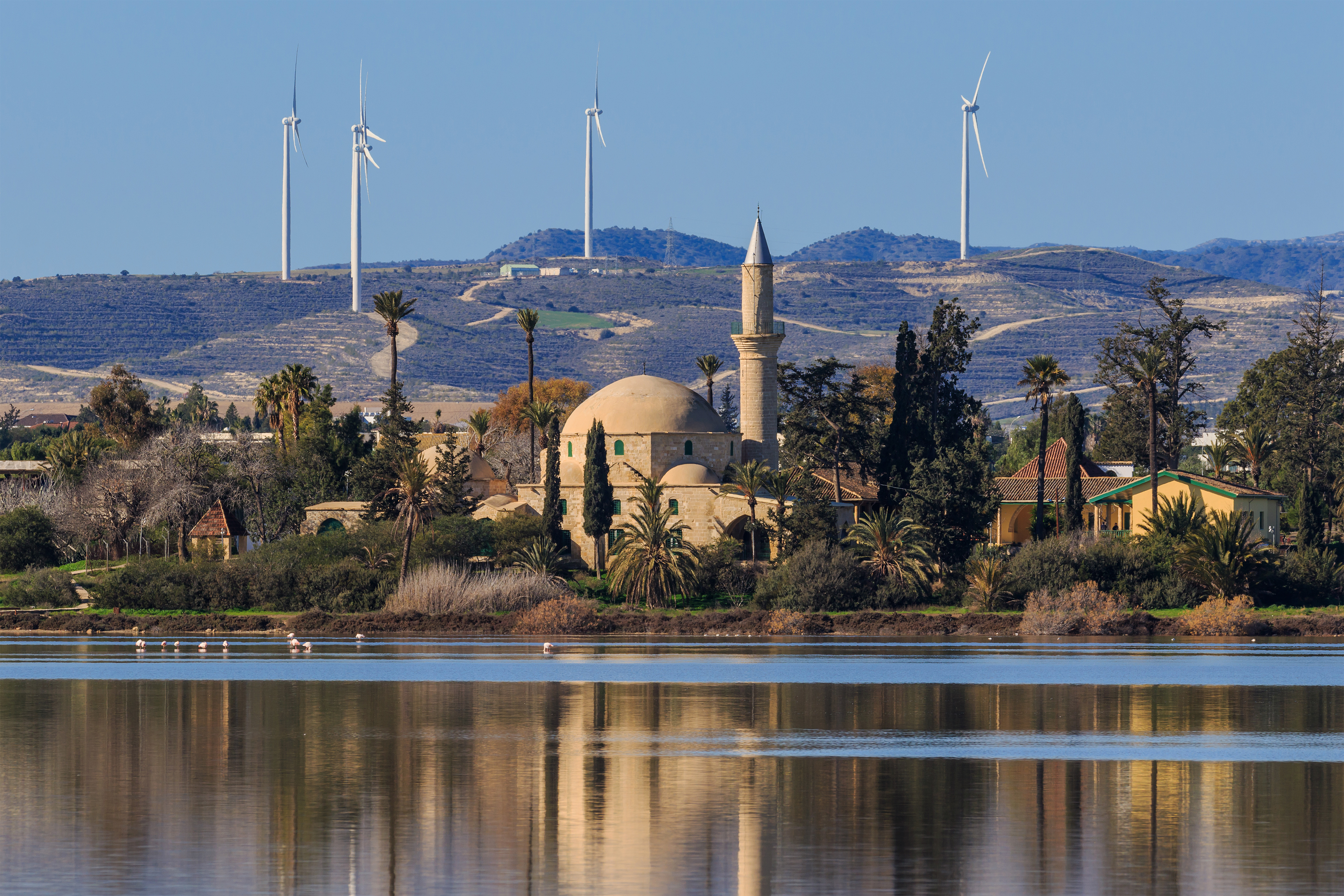 Hala Sultan Tekke Mosque at the Salt Lake in Larnaca, Cyprus